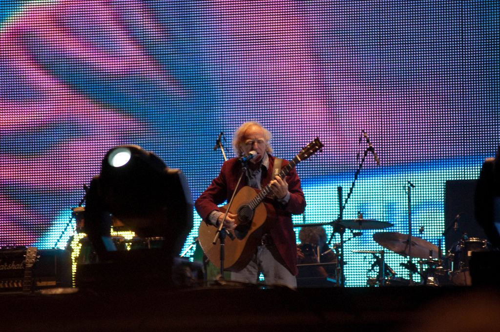 Homenaje al Rock Nacional. Miguel Cantilo.